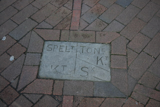 The old boundary stone, Tunbridge Wells This is the old stone in the pavement outside Charles the Martyr church. Before Tunbridge Wells was a town this was in the Parish of Tonbridge. 3 parishes met here Tonbridge, Speldhurst & E Sussex. The new county boundary is 2 miles south.